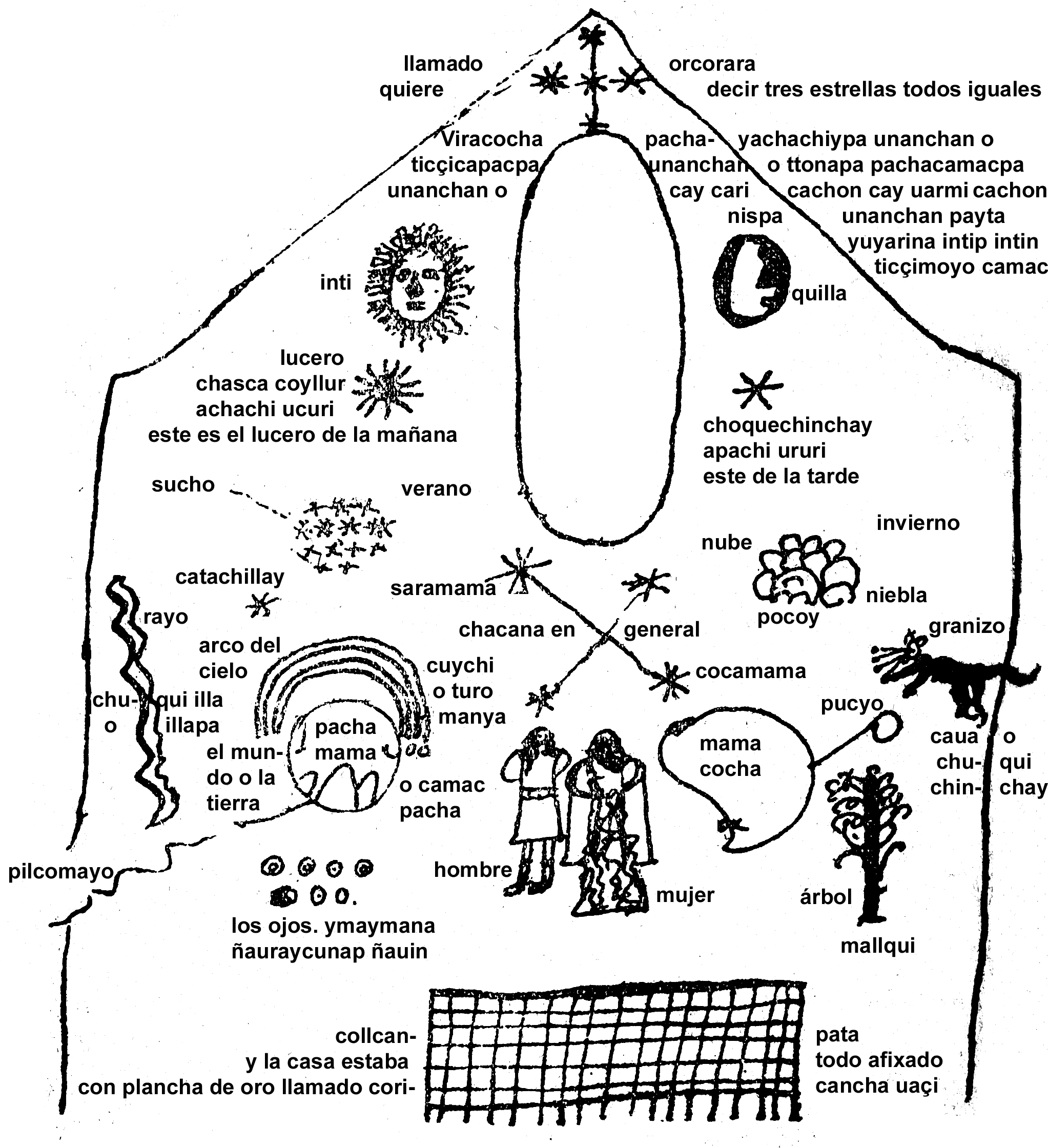 Juan de Santa Cruz Pachacuti Yamqui Salcamaygua: Cosmology of the Inca